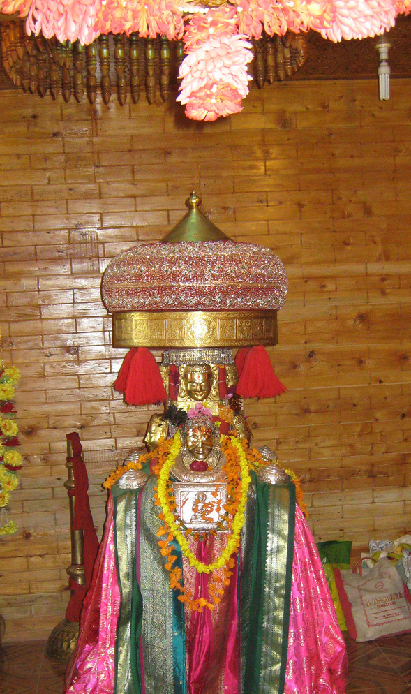 Divine Shringaar during mahashivratri Mandi